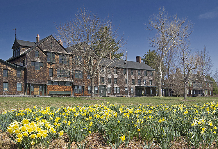 The sportsmens lodge, east view, Southside Sportmens Club District (Part of Connetquot River State Park, Preserve, Great River, NY)